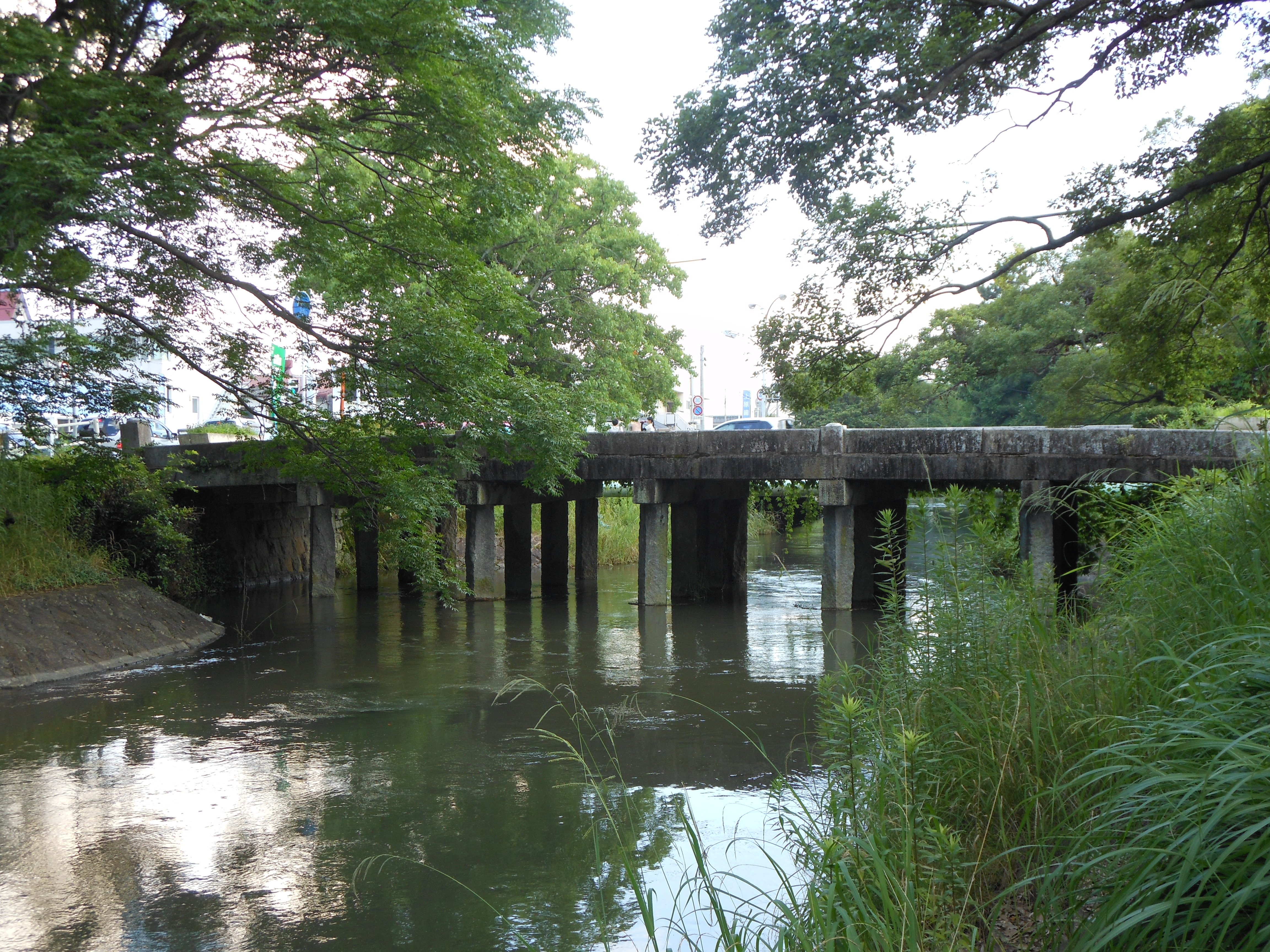 Sendanbashi(Sendan Bridge), a old stone girder bridge over Tafuse River, in Saga city, Saga prefecture, Japan.